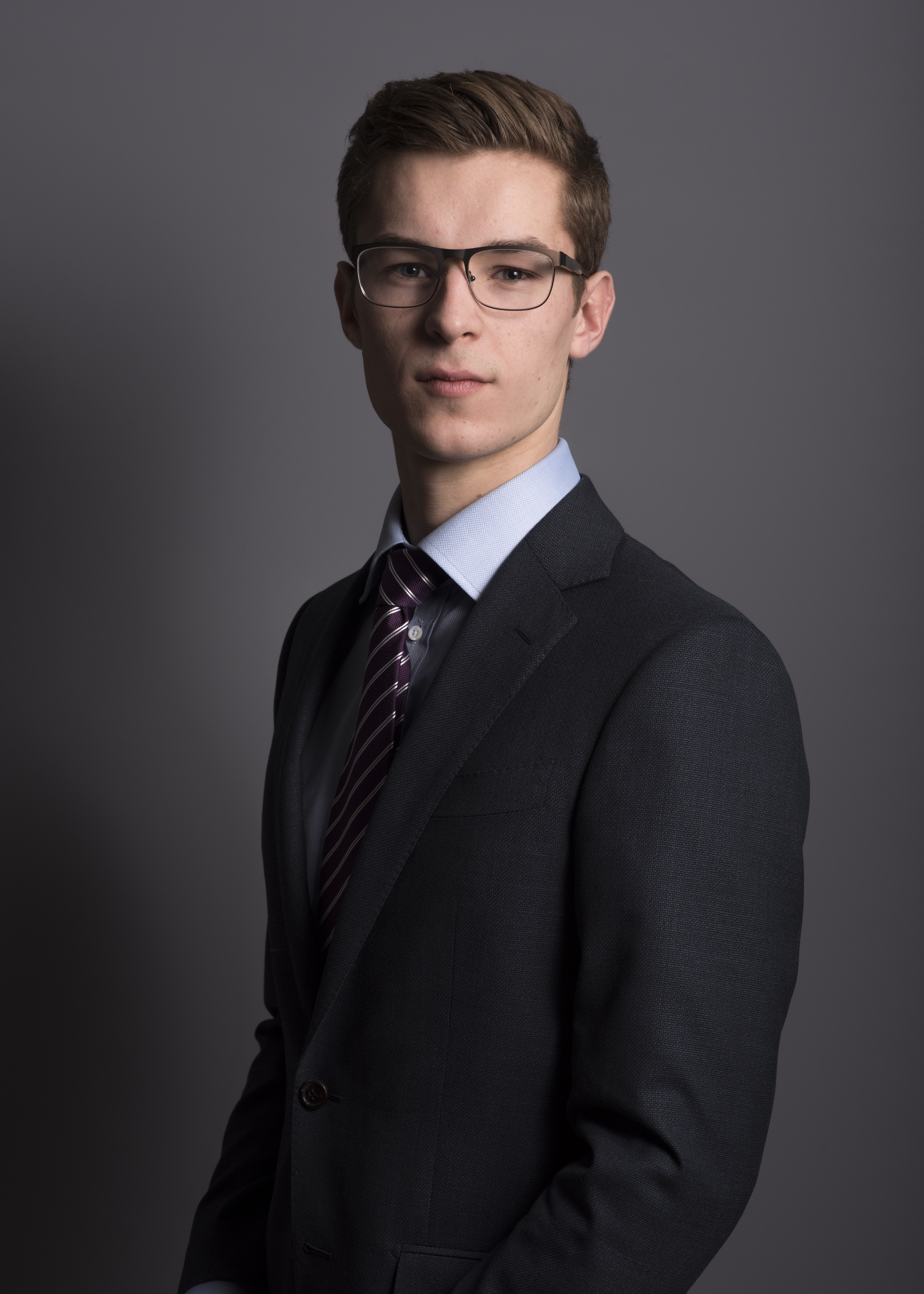 Sam Oosterhoff